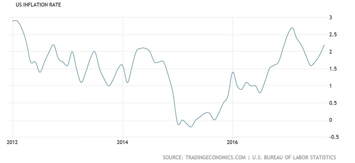 United States Inflation Rate, trading economics